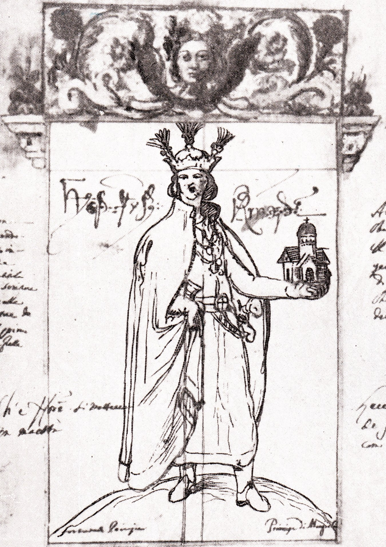 Levan II Daliani. A sketch by the Catholic missionaire Don Cristoforo De Castelli.